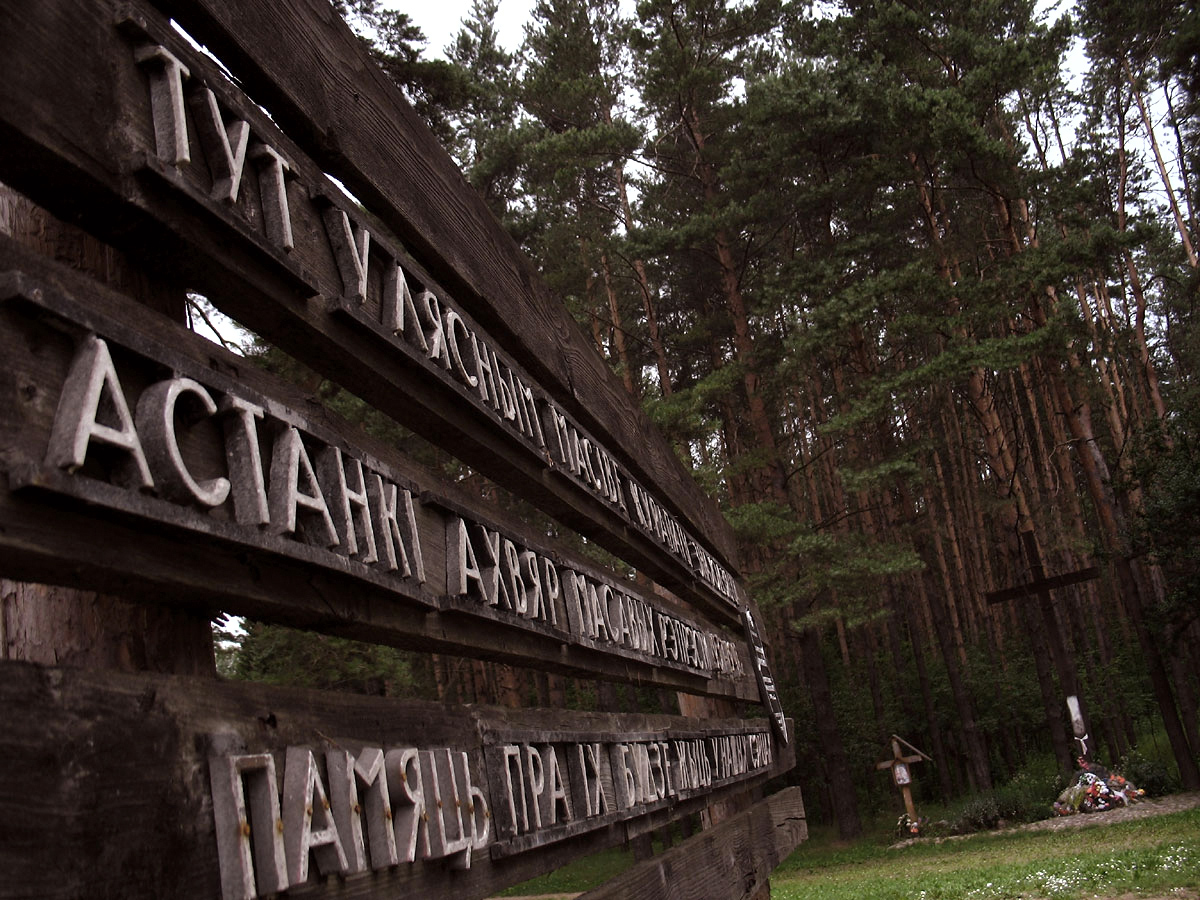 Kurapaty near Minsk is the place where mass executions of Belarusian civilians were carried out during the Stalin regime (1937 - 1941) Беларуская (тарашкевіца): Урочышча Курапаты пад Менскам — месца масавых расстрэлаў і пахаваньняў беларускіх цывільных асобаў, зьдзейсьненыя падчас сталінскіх рэпрэсіяў у 1937—1941 гадох